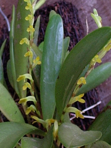 A work released per the GNU Free Documentation License by: Martín Javier Battiti de Tegucigalpa, Honduras